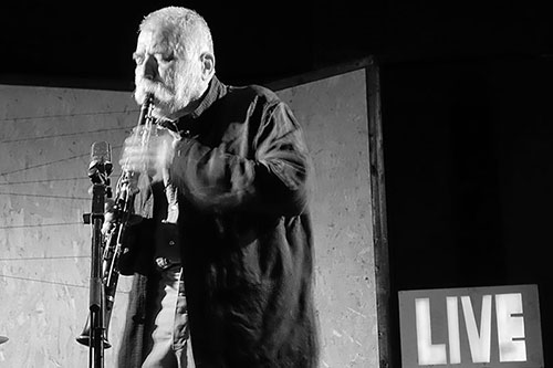 Peter Brötzmann in Aarhus, Denmark 2015